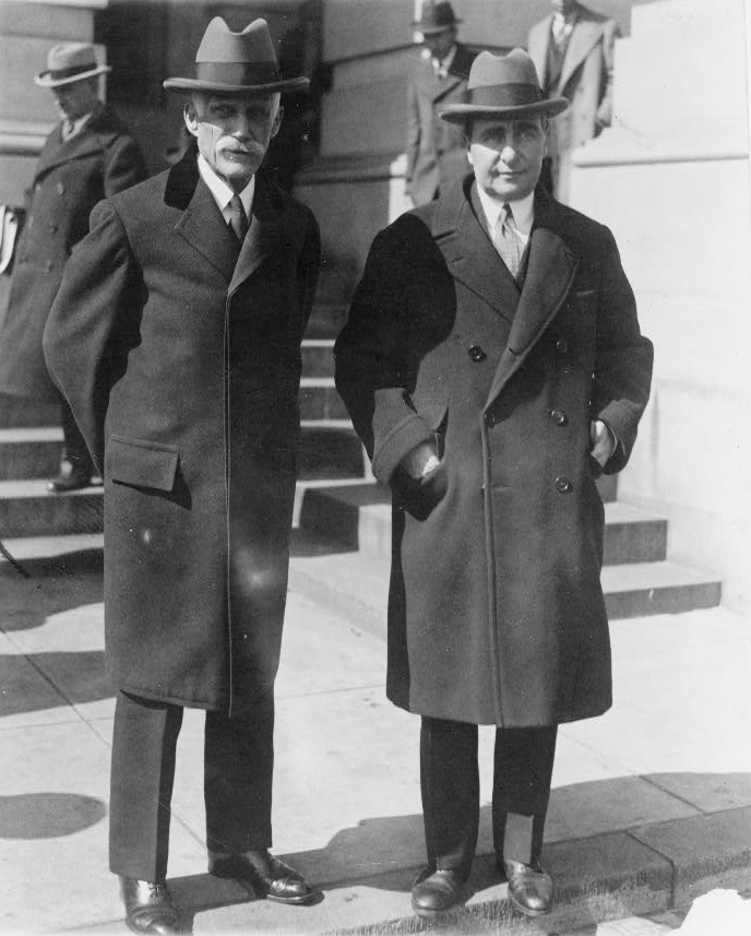 [Andrew W. Mellon and Ogden Mills, full-length portrait, facing front, standing outside the Capitol, after closing session of the Sixty-Ninth Congress] .